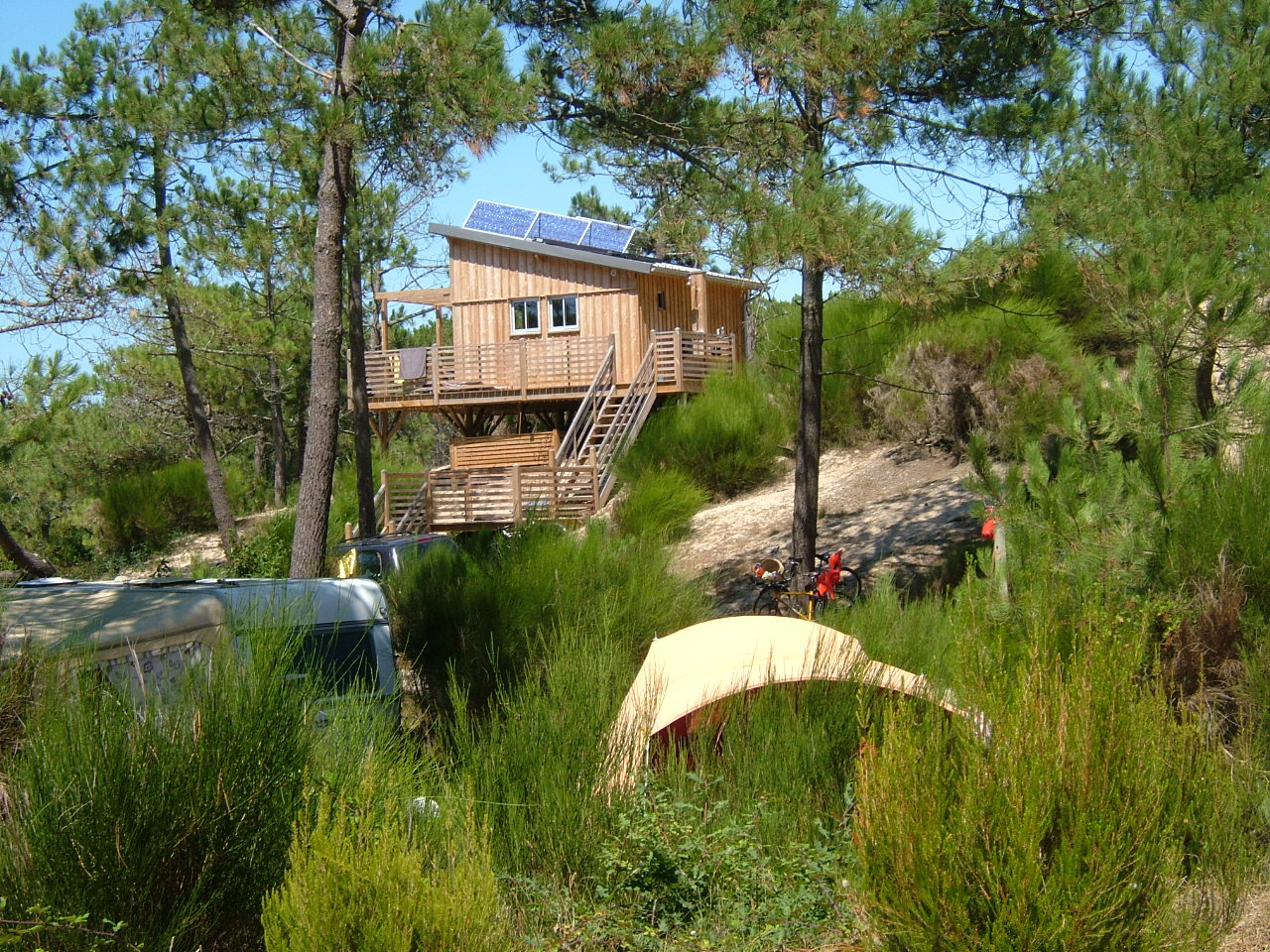 CHM-Montalivet (naturist resort) (CHM for "Centre Hélio-Marin", "center of sun and sea") is the world's first naturist holiday resort located south of Montalivet, in Vendays-Montalivet, France. View across 'Ajounc' to contraversial new built wooden chalet built with in the ONF protected zone